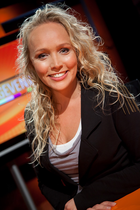 Politican, singer and business woman Sabine Uitslag.